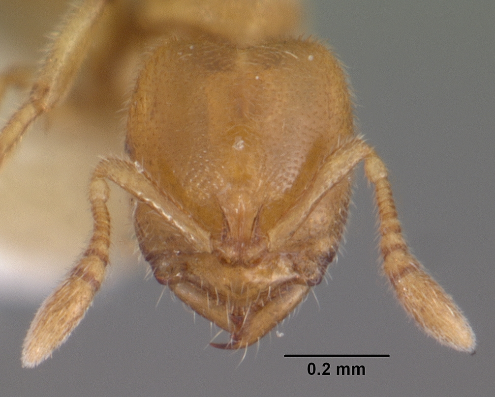 Head view of ant Prionopelta punctulata specimen casent0102586.